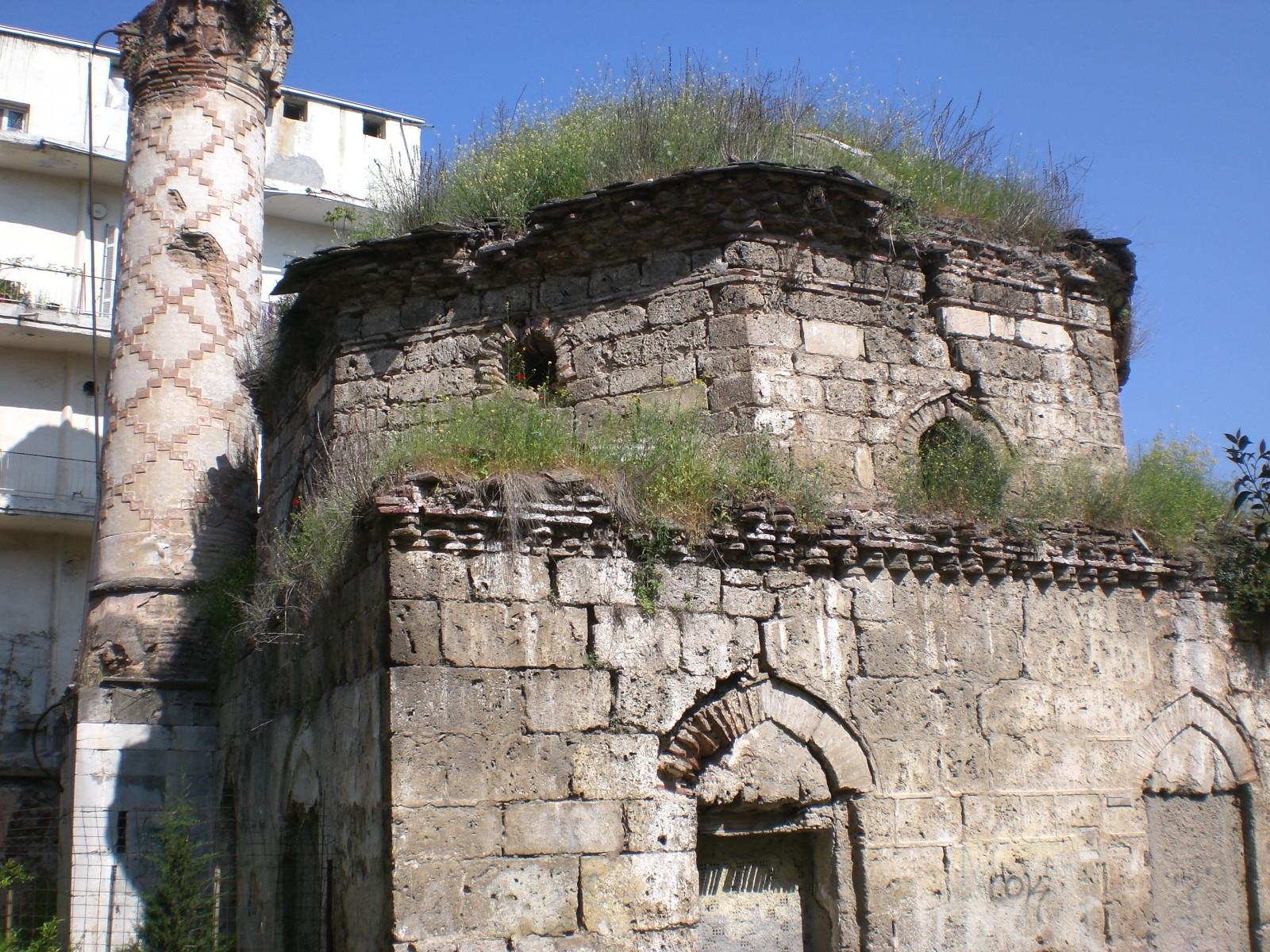 Orta Tzami Mosque, Veria